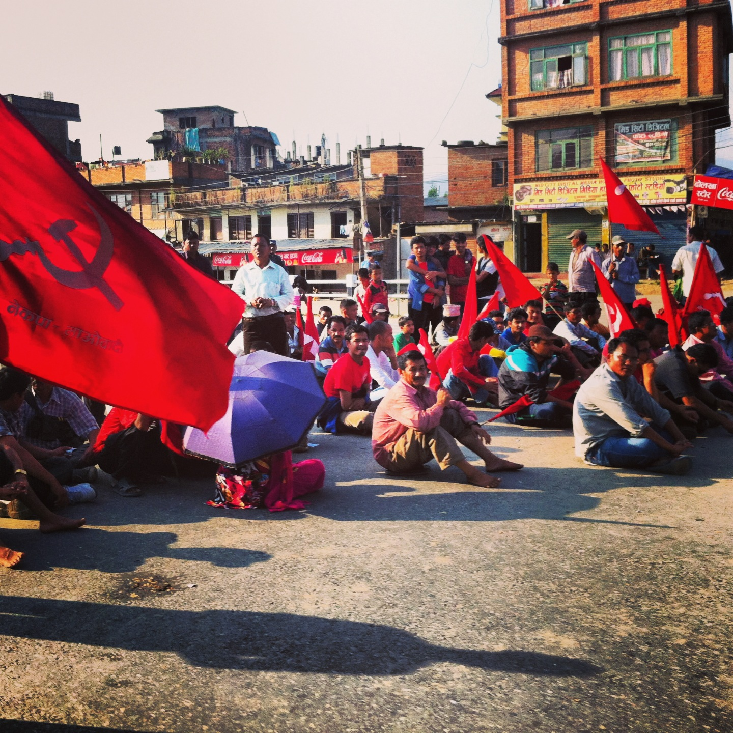 Peaceful protesters performing a roadblock. This strike, or "Bandh" was called after the Nepali government raised fuel prices for the third consecutive time.